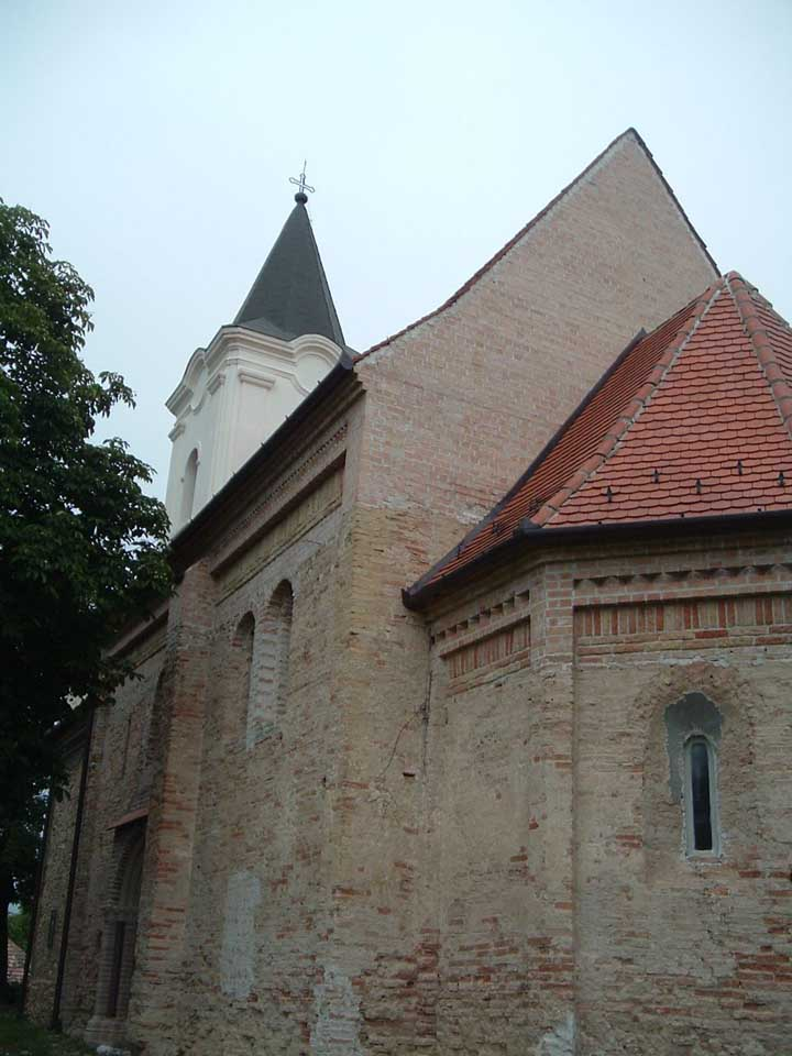 The lutheran church of Bakonyszentlászló (13th c.), Hungary This is a photo of a monument in Hungary, Identifier: 9622